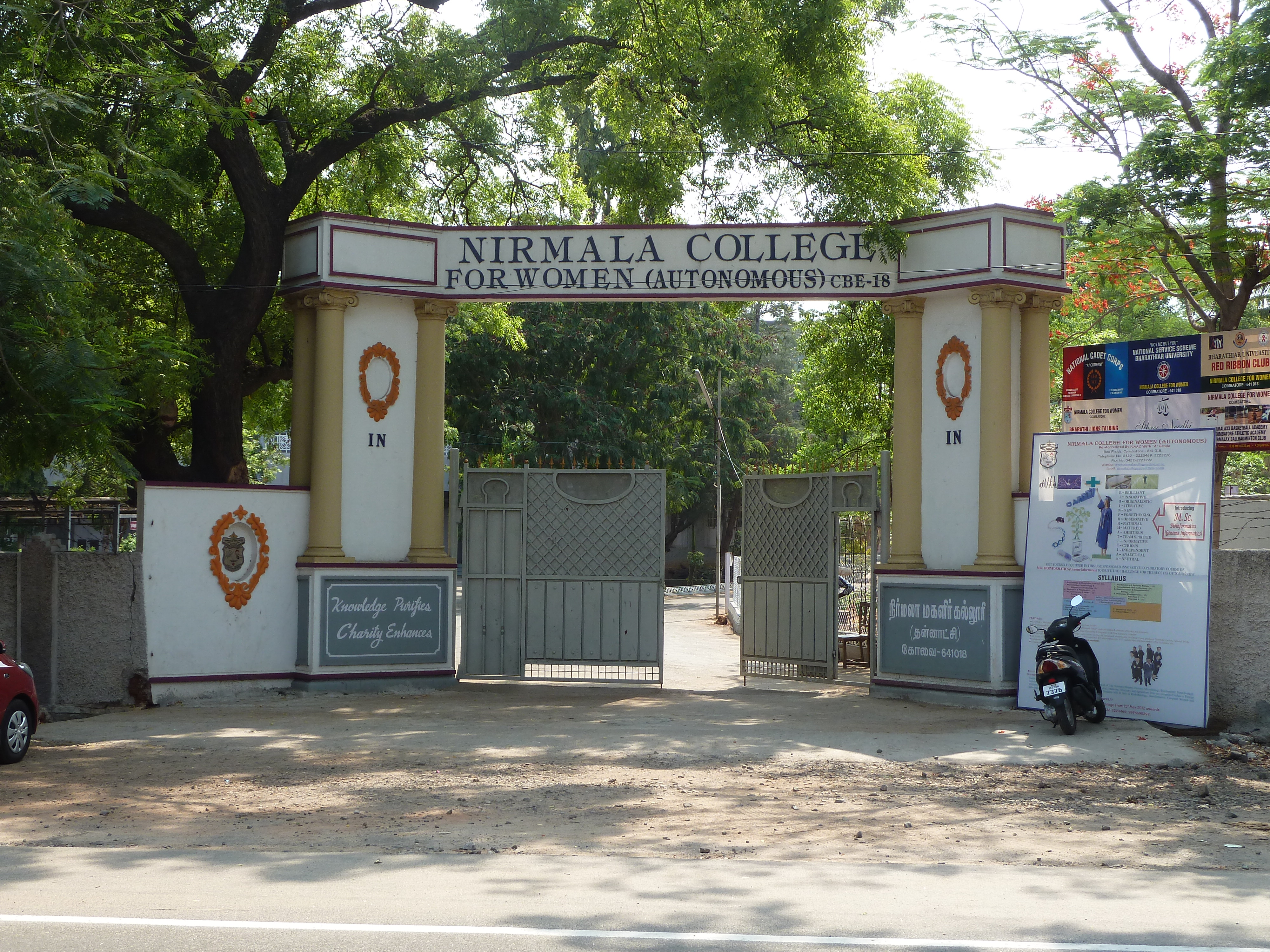 Entrance of Nirmala College for Women, Coimbatore.